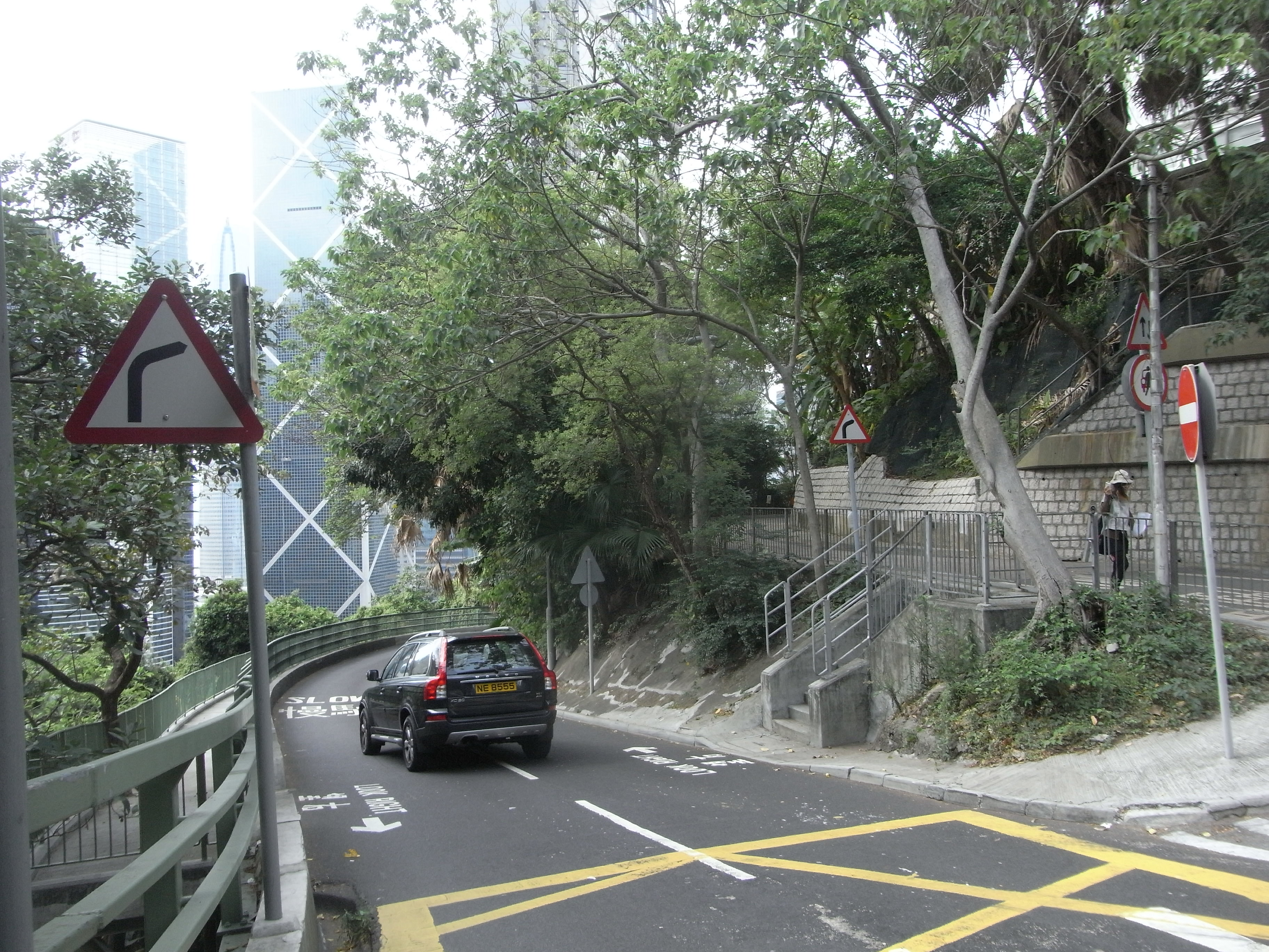 香港島中半山區波老道